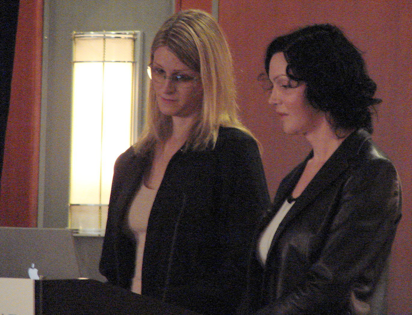 Featured Session on transgender topics featuring Andrea James and Calpernia Addams at the 2006 Out & Equal Workplace Summit.